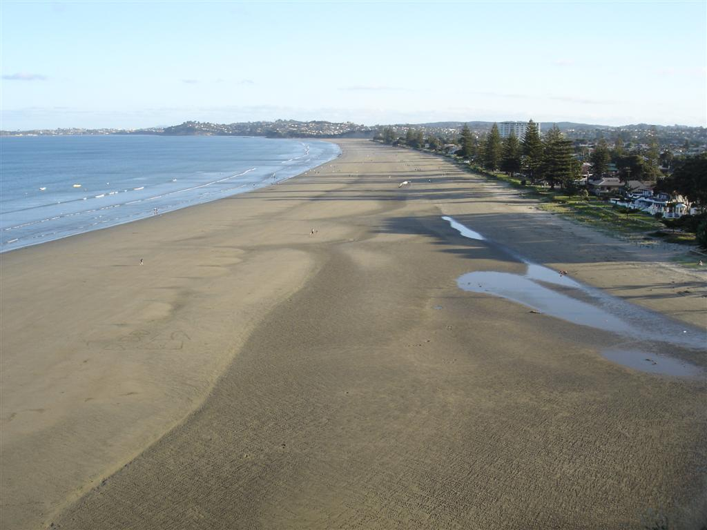 Orewa Beach, New Zealand. Photo by Si77